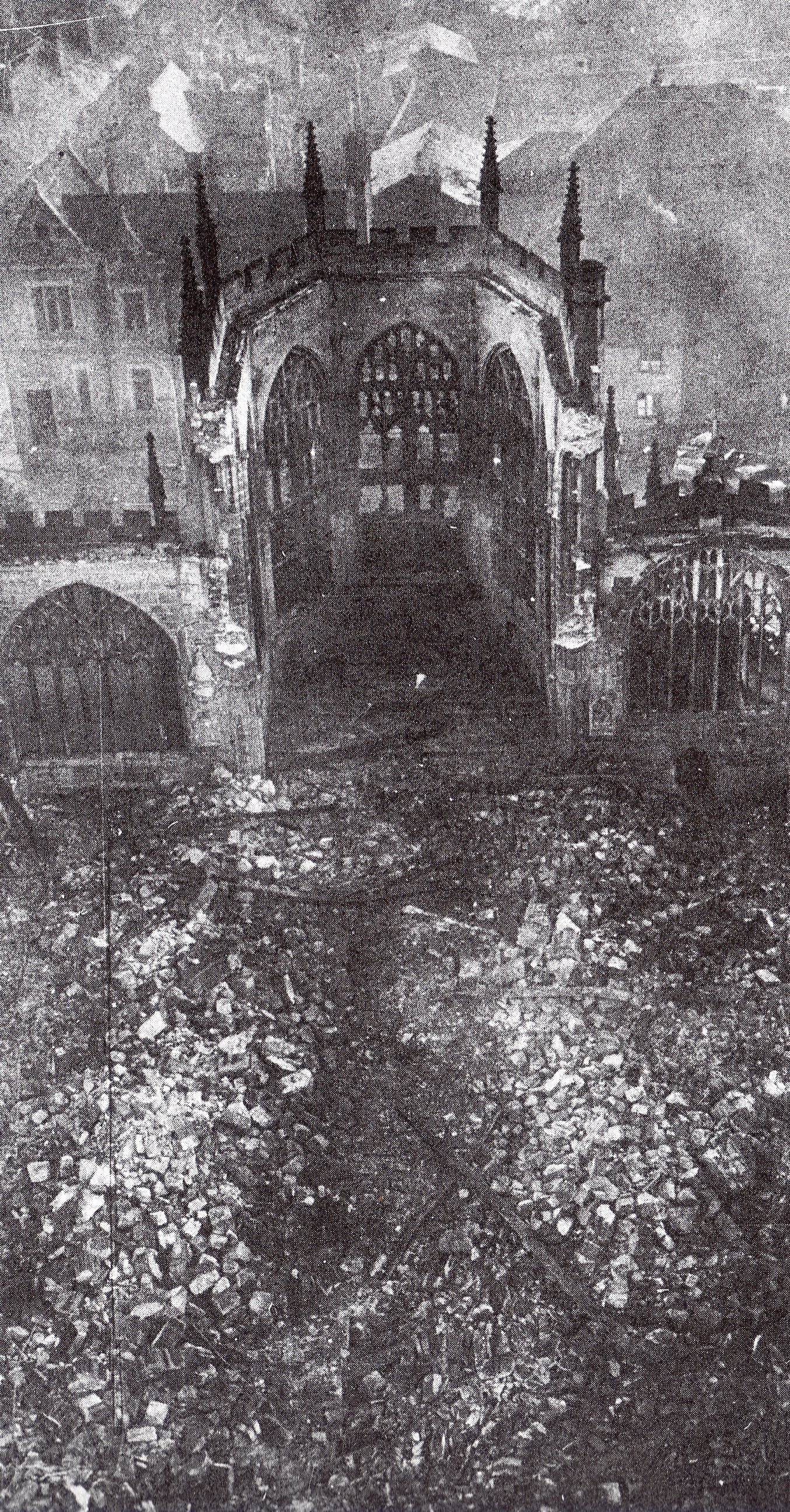 The ruined nave and chancel of Coventry Cathedral, England, seen from the west tower. It is in ruins after the German air raid of November 1940.